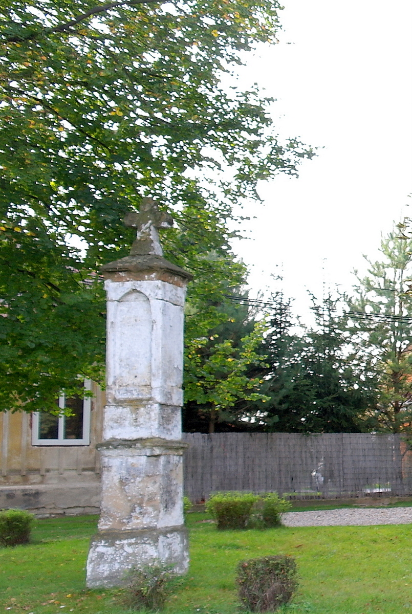 Wayside cross Martiněves.